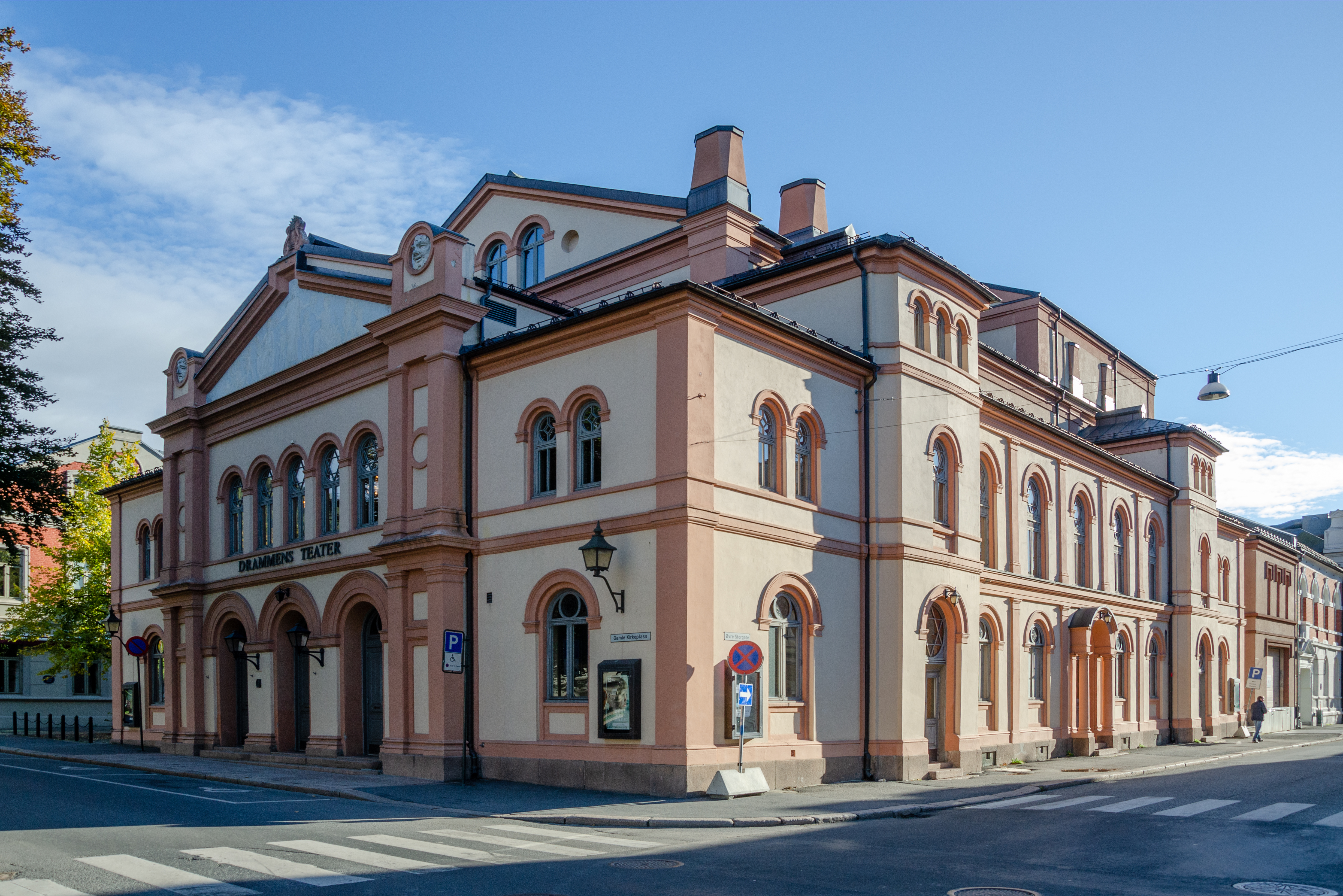 Drammen theatre seen from the southwest.